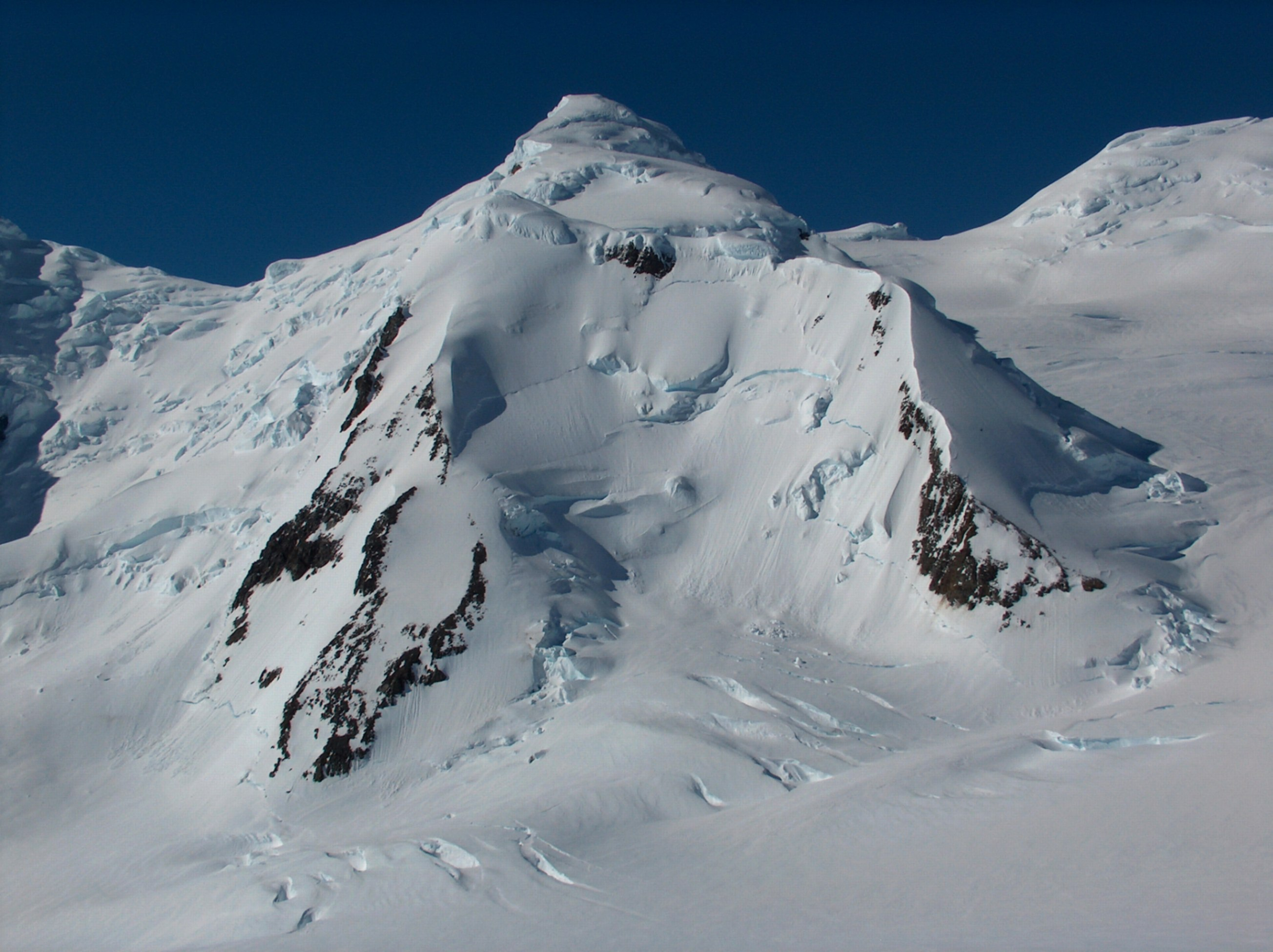 Lyaskovets